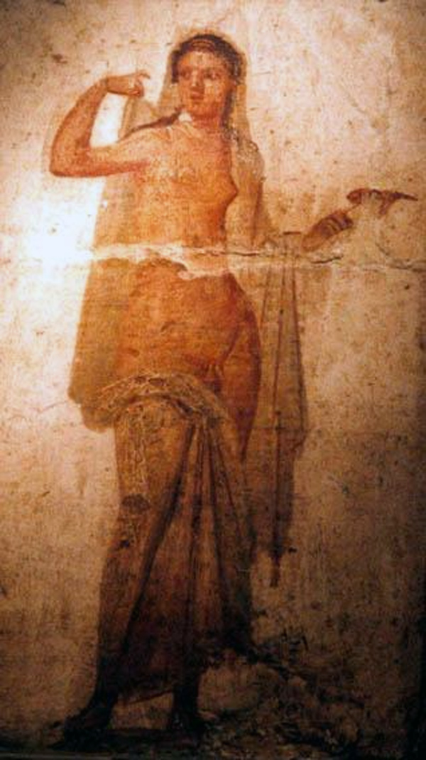 A Roman fresco of Hermaphroditus from Herculaneum.